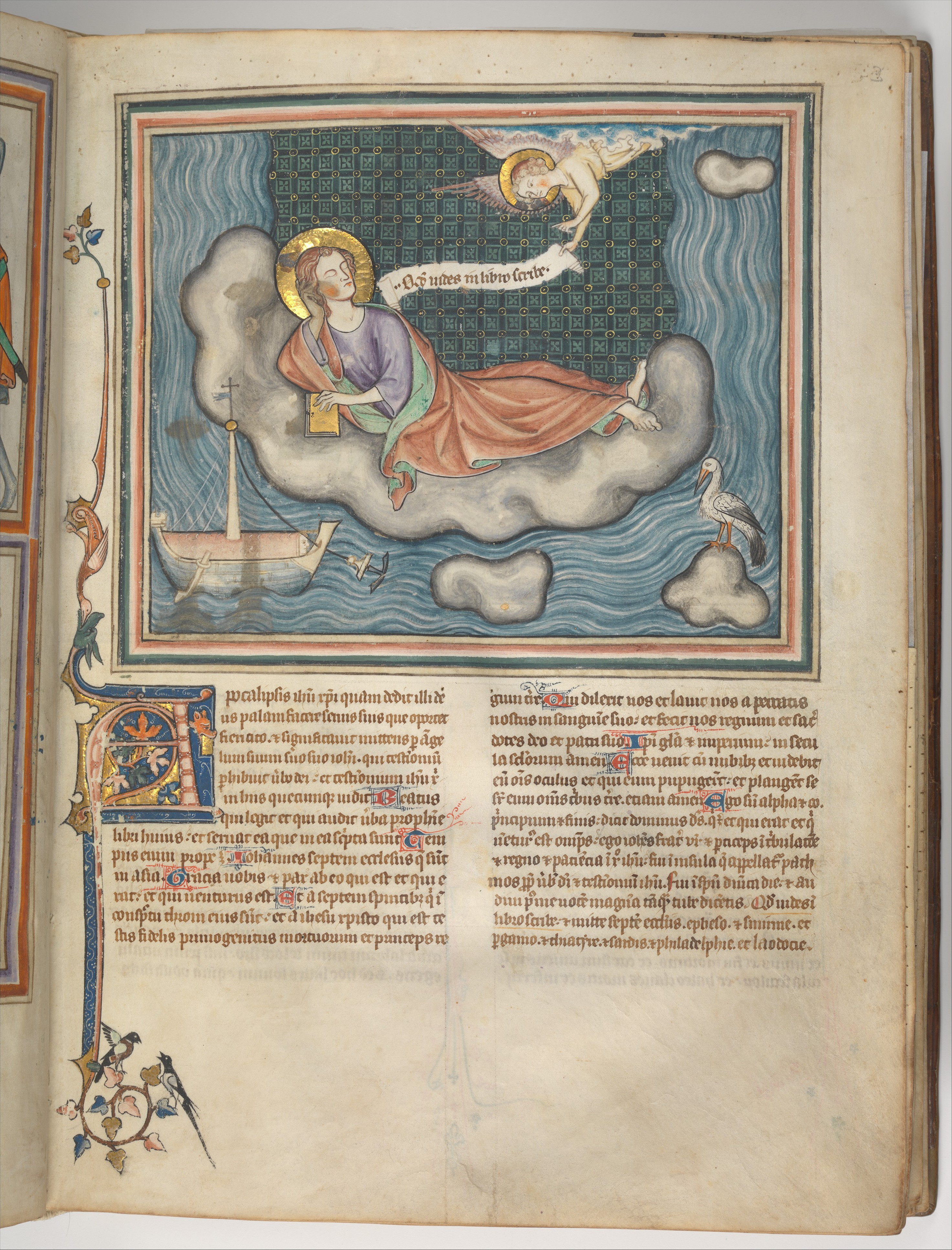 John on the Island of Patmos (folio 3 r.). From the The Cloisters Apocalypse Illuminated manuscripts